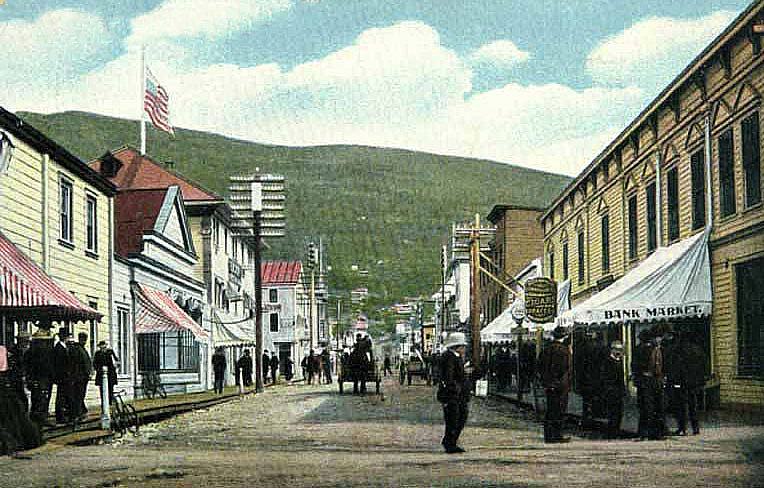 Third Street in Dawson during the Klondike Gold Rush, postcard